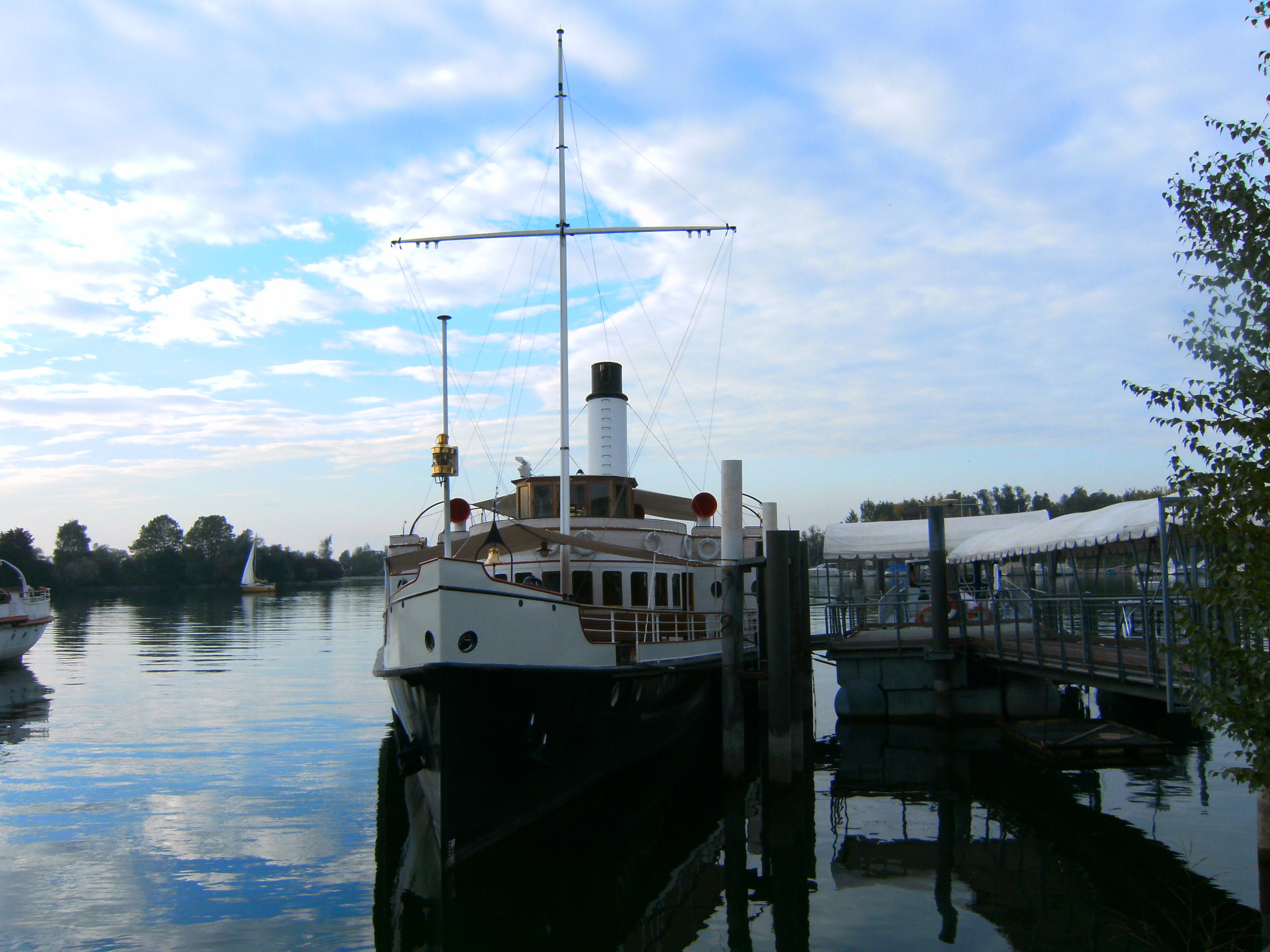 Steamship Hohentwiel in her home port, Hard in Österreich. Hohentwiel at the landing stage.